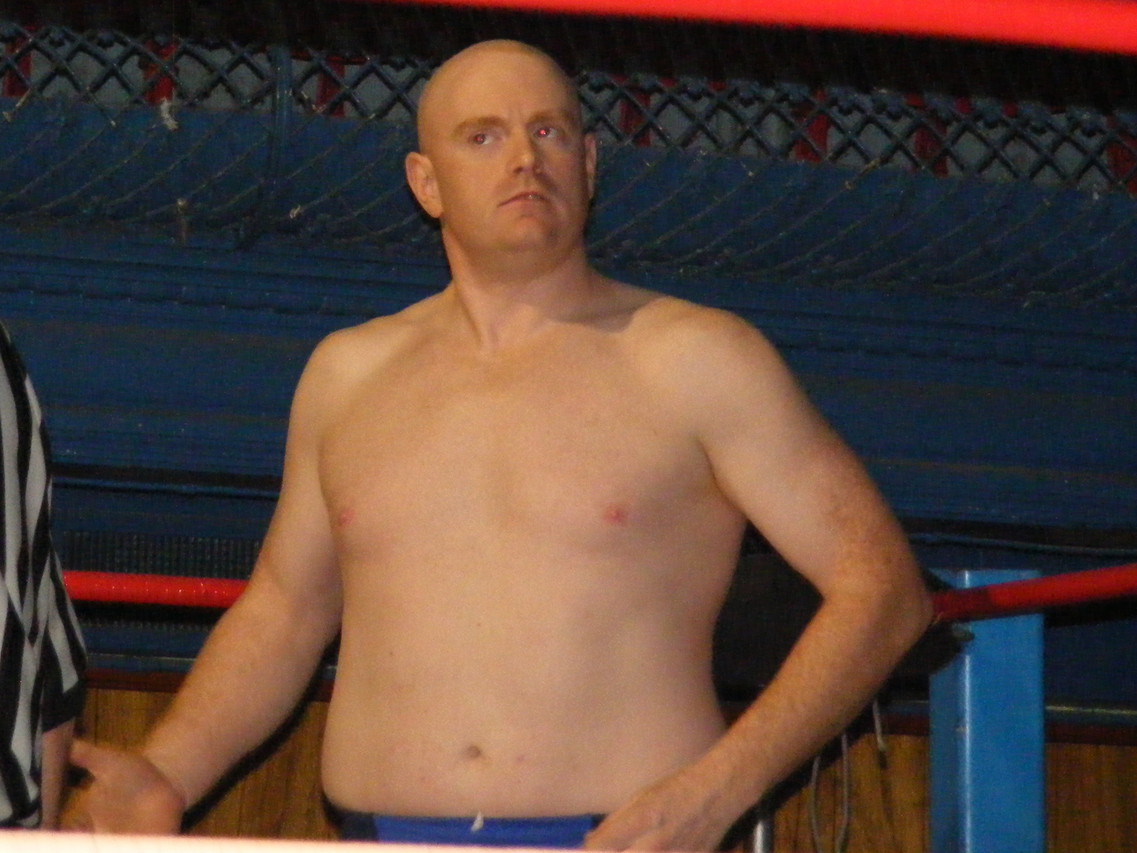 Bob Evans in the ring at a TRP show on January 1, 2012 in Fall River, MA. Cropped from original.